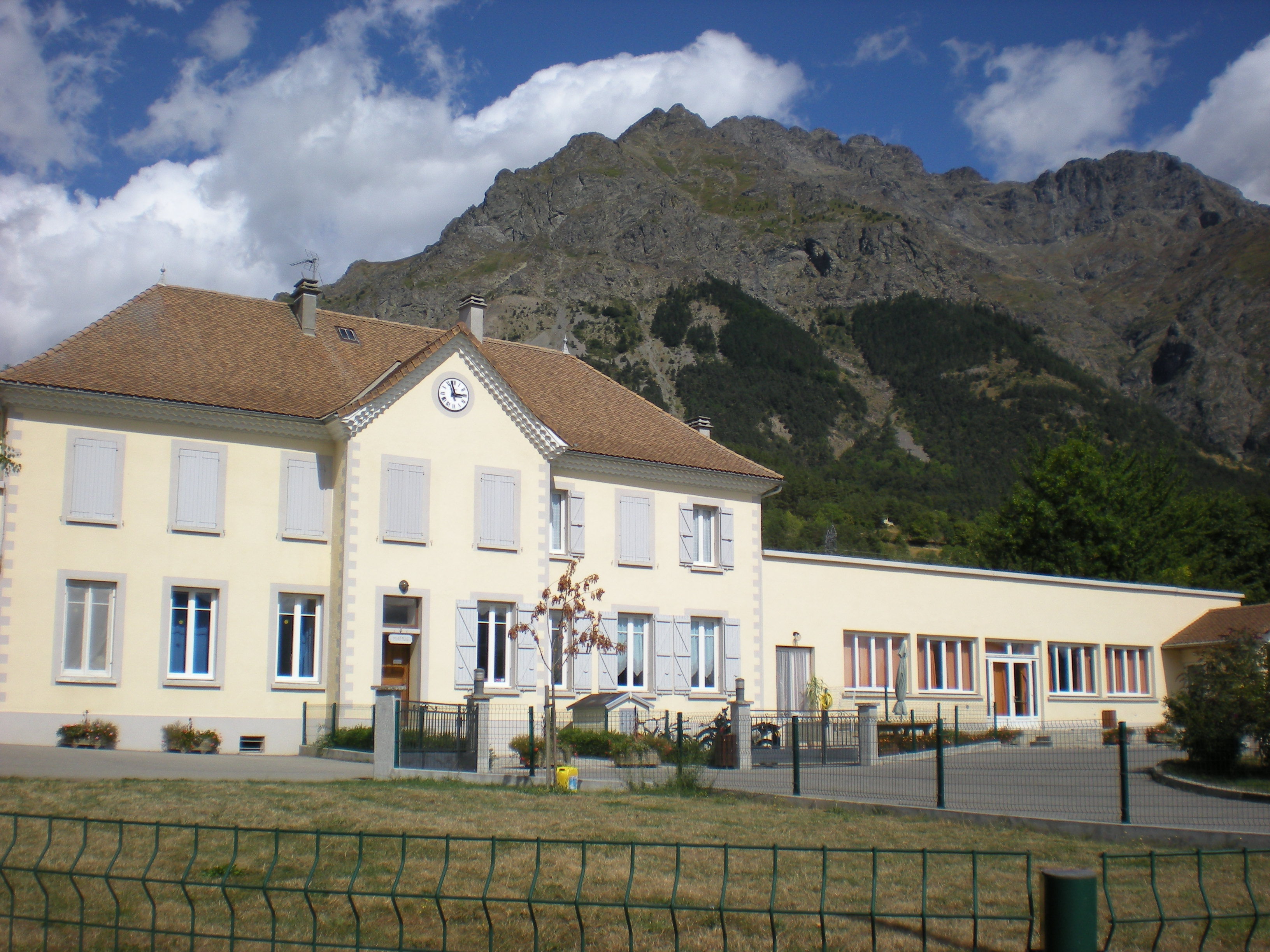 Town hall of Les Costes en Champsaur/France)